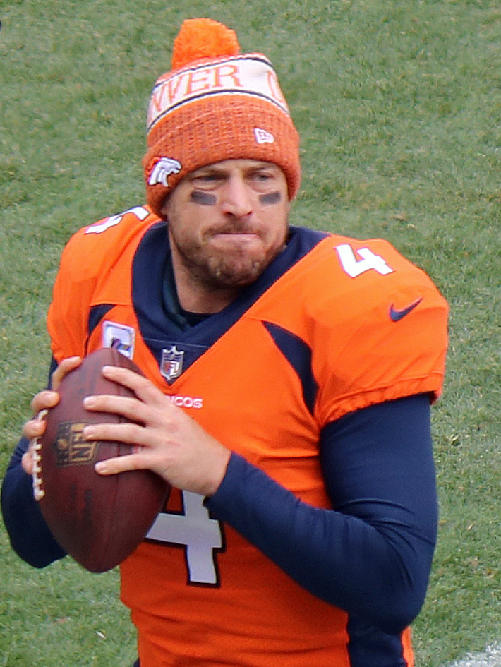 Case Keenum, a National Football League player.